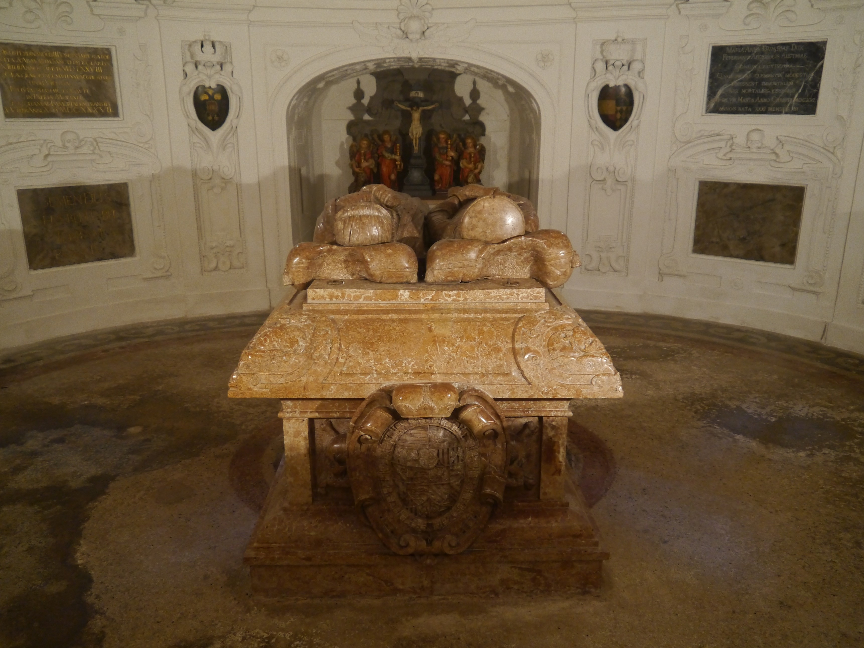 an undercroft at St. Catherine, Graz